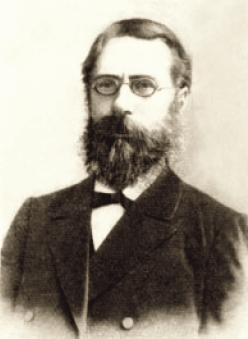 Portrait of Feodor A. Sludsky (1841-1897), Russian mathematician